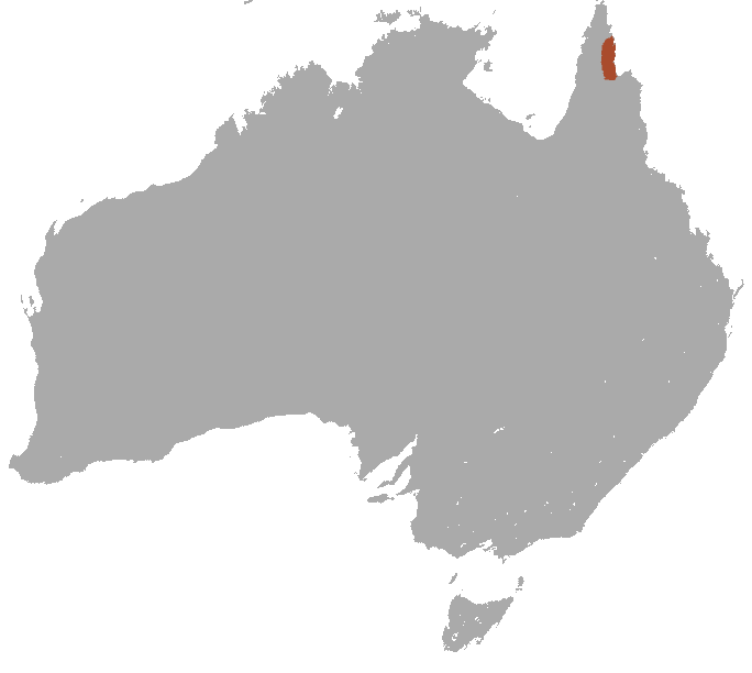 Cape York Rock Wallaby (Petrogale coenensis) range